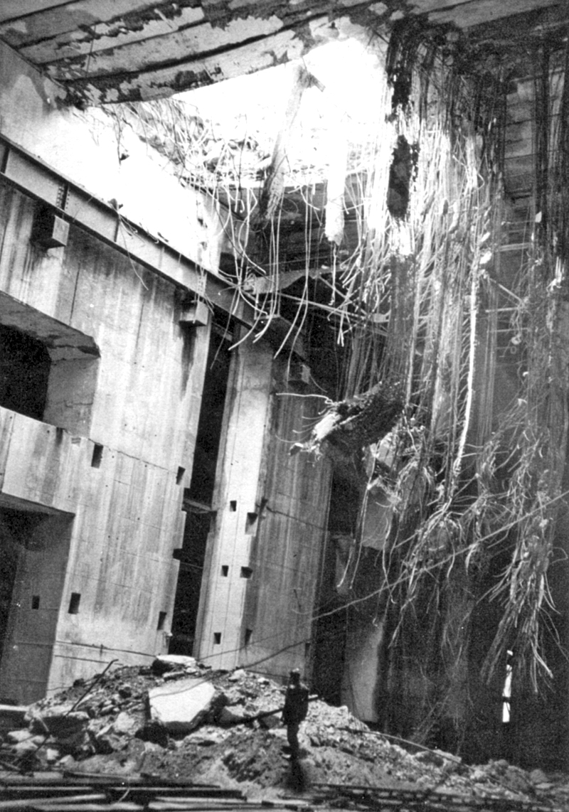 15-foot reinforced ferro-concrete U-Boat pen roof penetrated by a 22,000 lb MC Grand Slam bomb